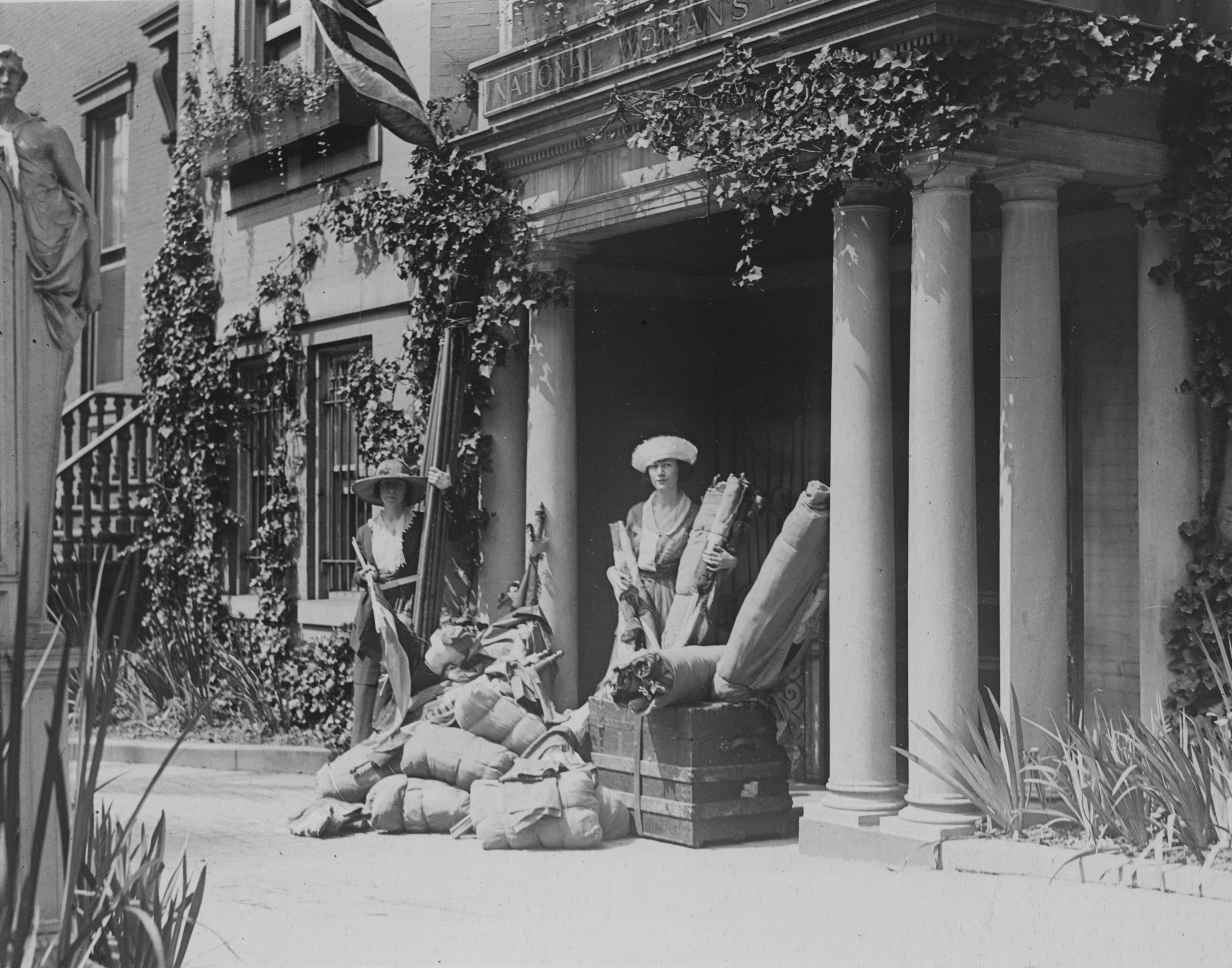 Photograph of two National Woman's Party members standing with luggage and supplies (rolled-up banners, etc.) for "Prison Special" tour, in front of the NWP headquarters at Lafayette Square in Washington DC.